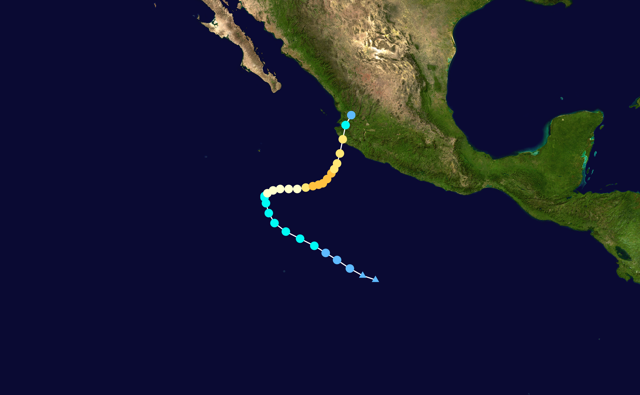 Track map of Hurricane Jova of the 2011 Pacific hurricane season. The points show the location of the storm at 6-hour intervals. The colour represents the storm's maximum sustained wind speeds as classified in the Saffir–Simpson scale (see below), and the shape of the data points represent the nature of the storm, according to the legend below. Saffir–Simpson scale Tropical depression≤38 mph≤62 km/h Category 3111–129 mph178–208 km/h Tropical storm39–73 mph63–118 km/h Category 4130–156 mph209–251 km/h Category 174–95 mph119–153 km/h Category 5≥157 mph≥252 km/h Category 296–110 mph154–177 km/h Unknown Storm type Tropical cyclone Subtropical cyclone Extratropical cyclone / Remnant low / Tropical disturbance / Monsoon depression